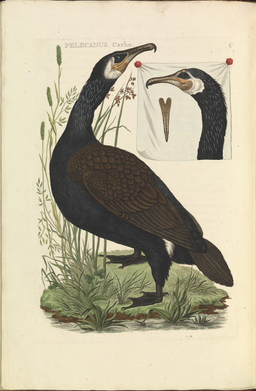 Plate 49 from the Nederlandsche vogelen by Nozeman and Sepp.